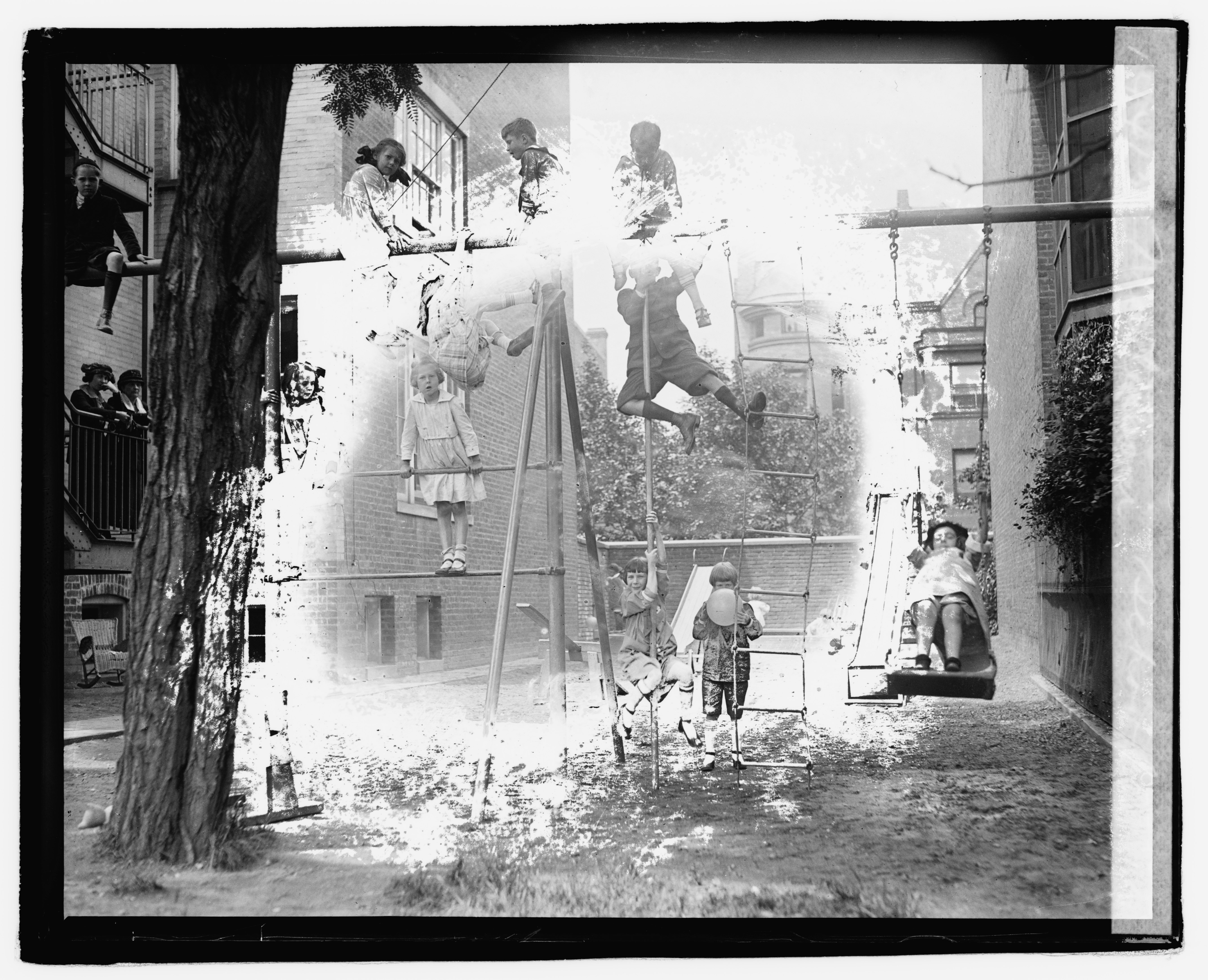 Title: Montessori school Abstract/medium: National Photo Company Collection (Library of Congress) Physical description: 1 negative